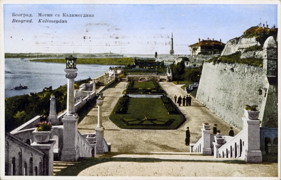 A motif from the Kalemegdan fortress, Belgrade, 1930.Catalog number:Zf, A-II-125